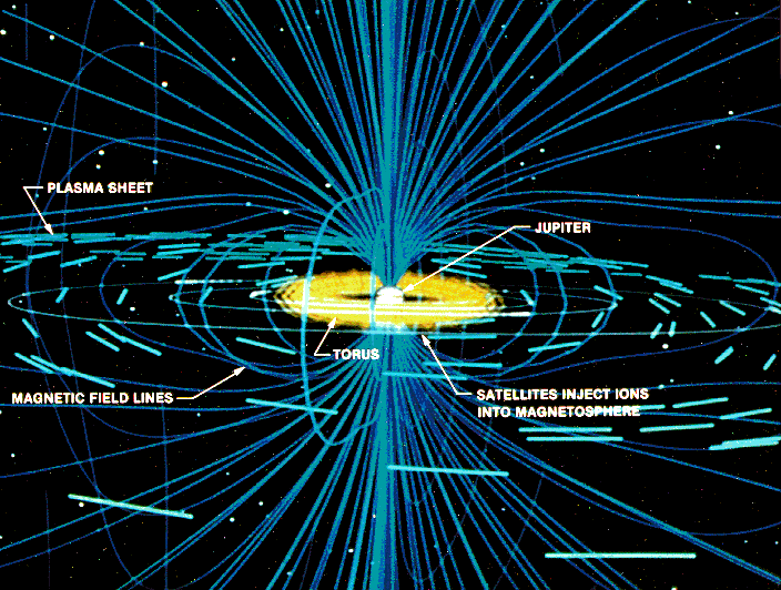 Interaction of Io with the magnetosphere of Jupiter. Io's torus is shown in yellow.